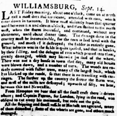 Excerpt of report in September 14, 1769 issue of the Virginia Gazette about hurricane that recent came North Carolina, Virginia, and points north. Report begins: "Last Friday morning, about one o'clock, came on at north east a most dreadful hurricane, attended with rain, which came down in torrents."